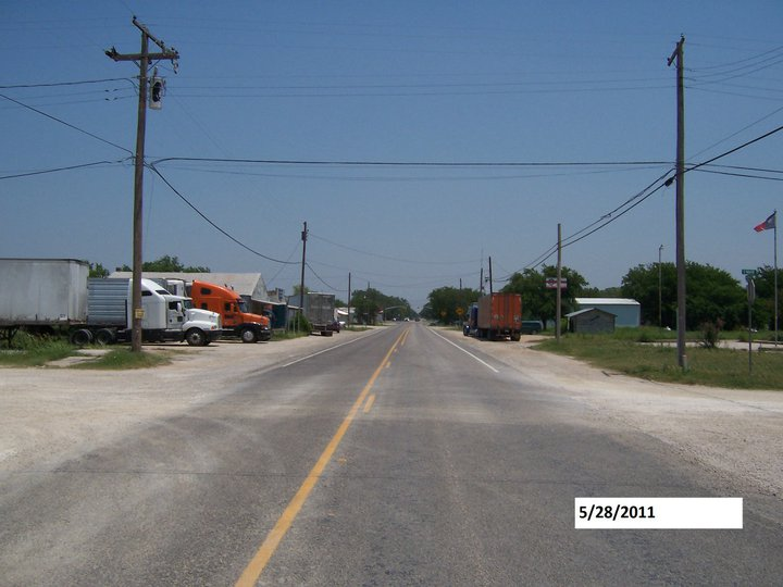 On FM 2210 and Mark St Looikng East towards Hiway 281